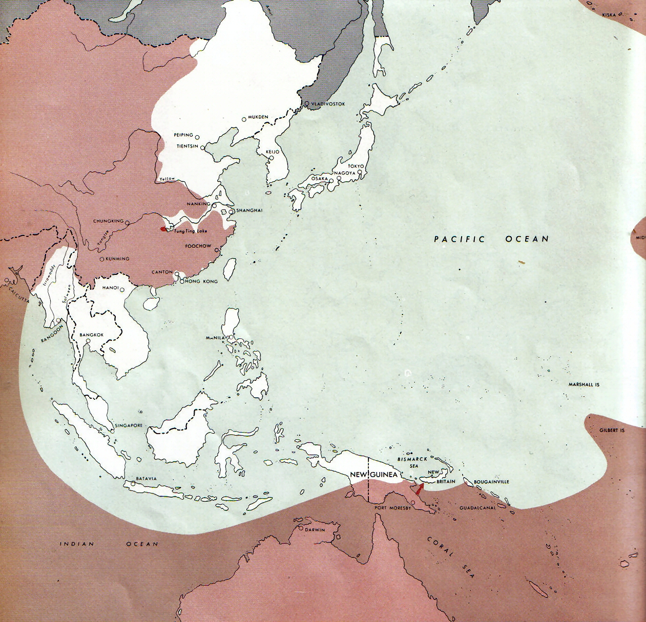 Map of the front against Japan as of 15 Dec 1943: This map is taken from the source "Atlas of the World Battle Fronts in Semimonthly Phases to August 15th 1945: Supplement to The Biennial report of The Chief of Staff of the United States Army July 1, 1943 to June 30 1945 To the Secretary of War". (See Cover, Forward and Map details)